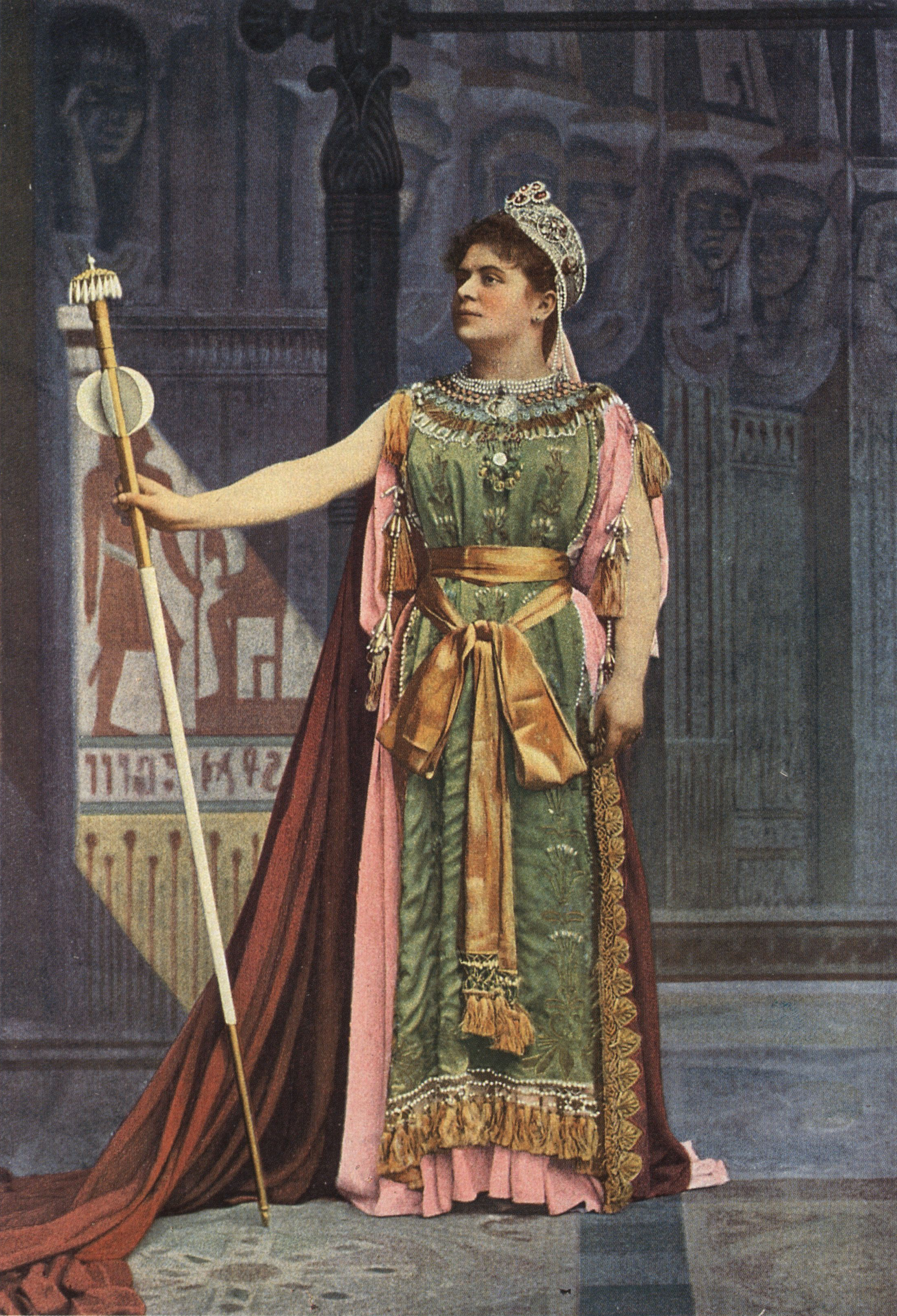 Marie Delna as Didon in Les Troyens à Carthage by Berlioz - Opéra-Comique, Paris 1892